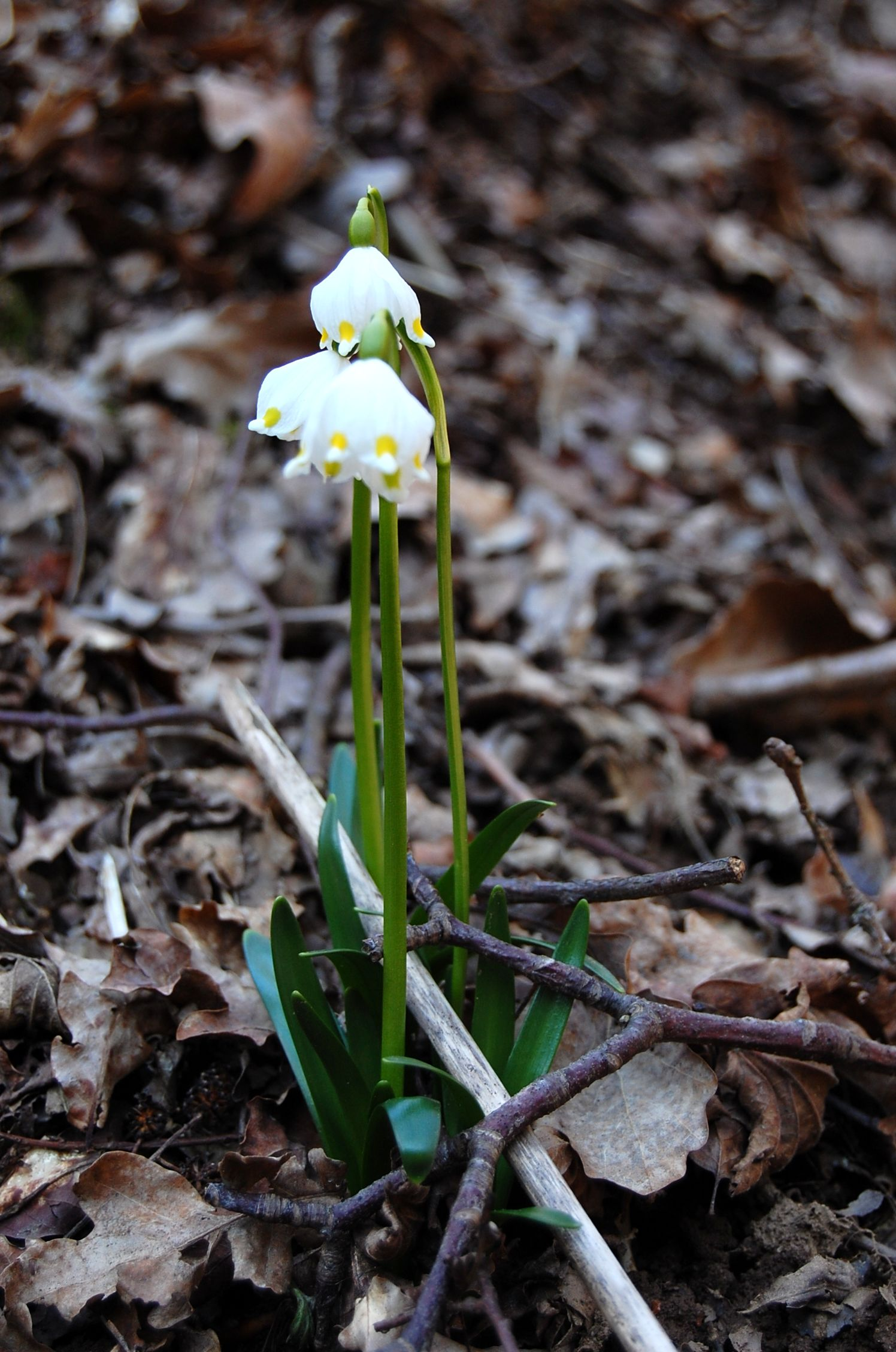 Leucojum vernum in natural monument Mastnice, Prachatice District, Czech Republic